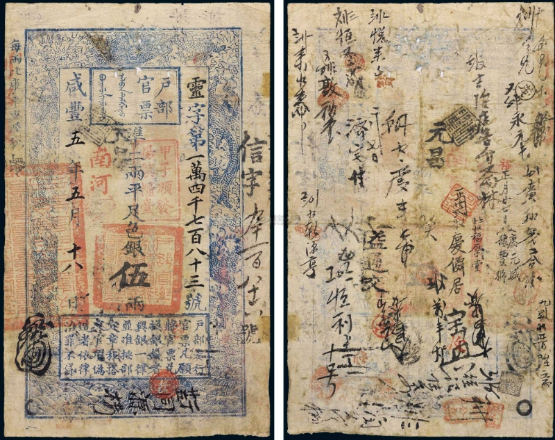 A banknote from the Xianfeng era of the Qing Dynasty.